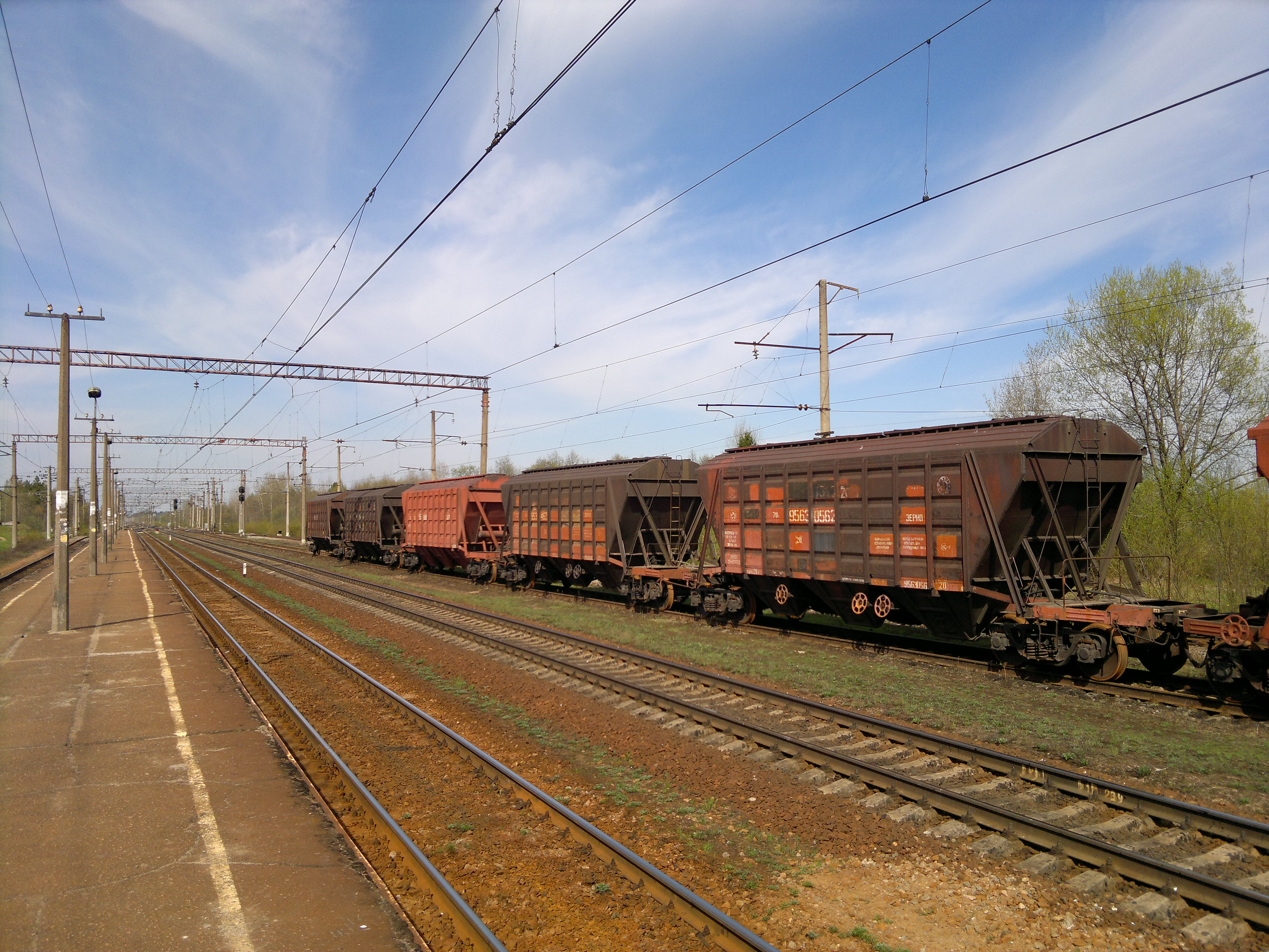 Abandoned train in Stroganovo railway station.